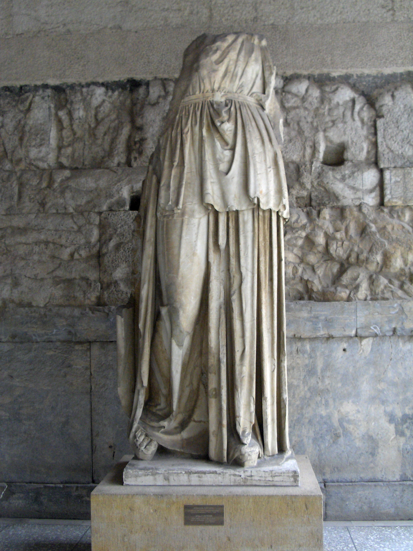 Possibly the cult statue of the temple of Apollo Patroos in the Agora of Athens. Standing Apollo dressed in chiton, himation and peplos. Torso mended from two large fragments. The arms, kithara and the head, that was carved separately, are missing. The well preserved surface suggests the statue stood indoors.